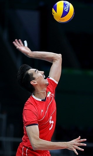 Volleyball, match between Iran and Egypt at the Olympic Games in 2016